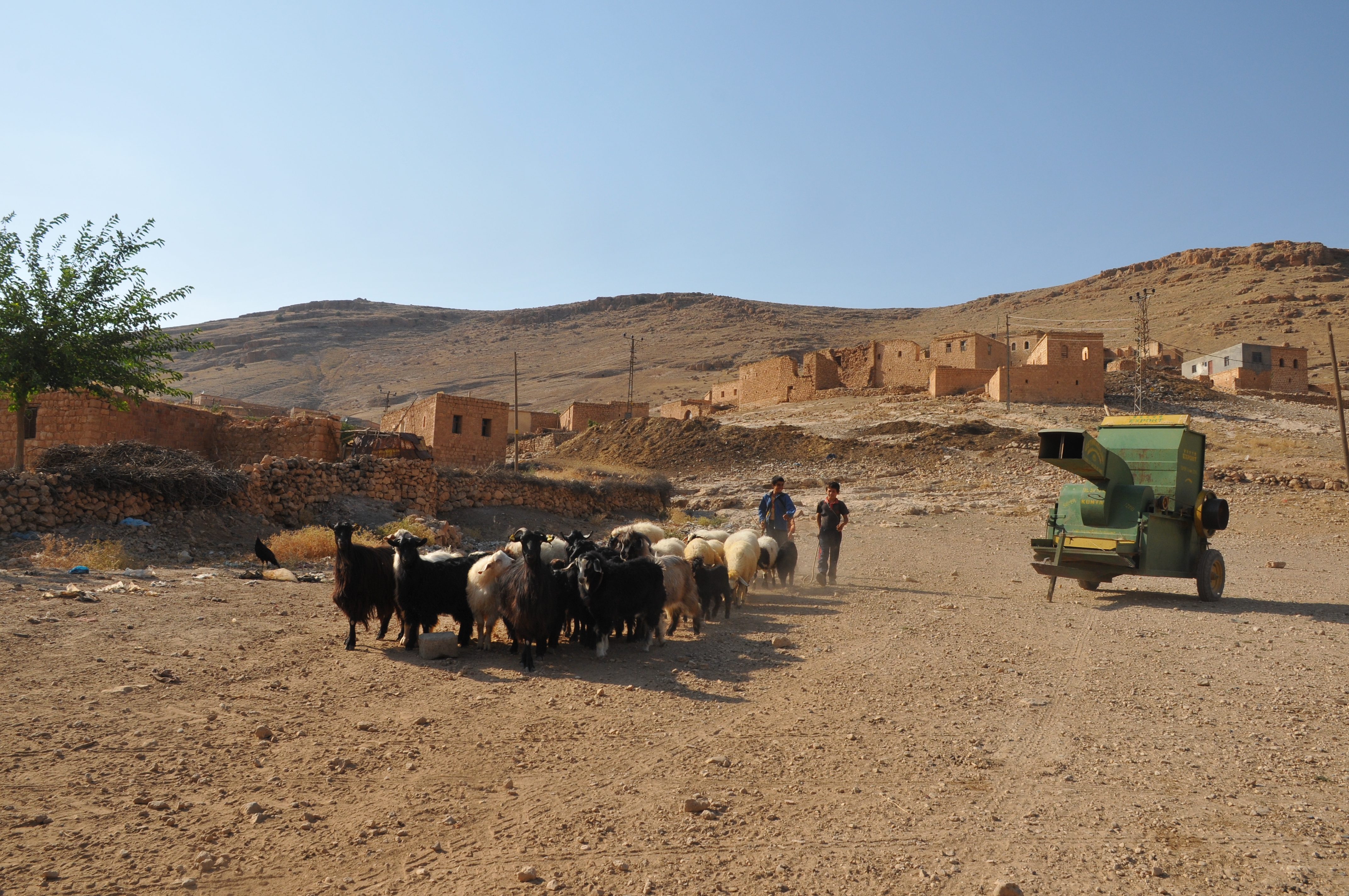 A view from Cilîn, Stewr district, Mêrdîn ProvinceKurdî: Dîmenek ji Cilîn